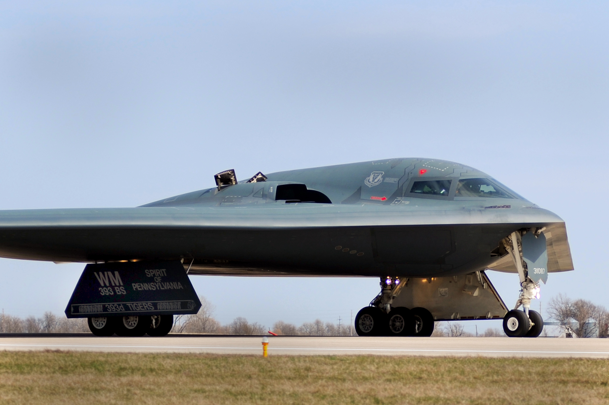 A B-2 Spirit returns to Whiteman Air Force Base, Mo., March 20, 2011, after a mission.